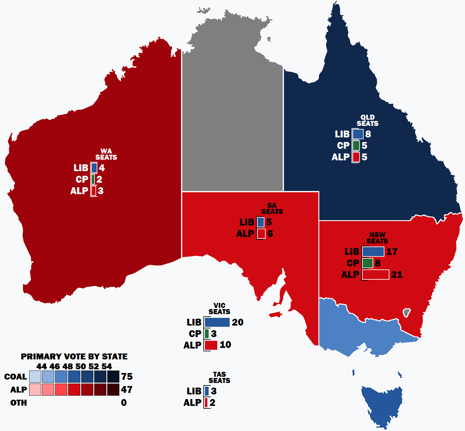 Result of the primary vote by state in the 1955 Australian federal election.